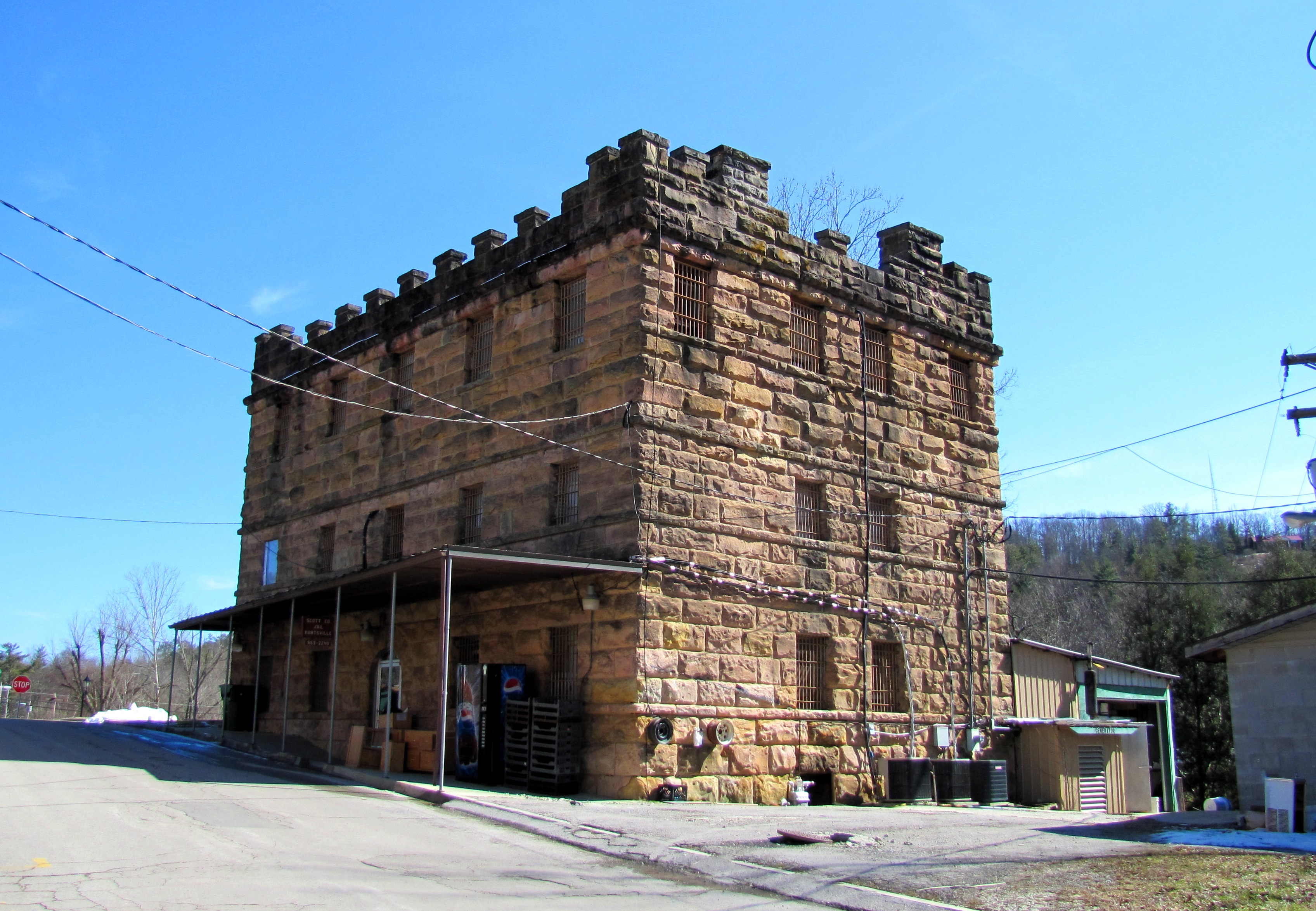 The NRHP-listed Old Scott County Jail in Huntsville, Tennessee, USA.